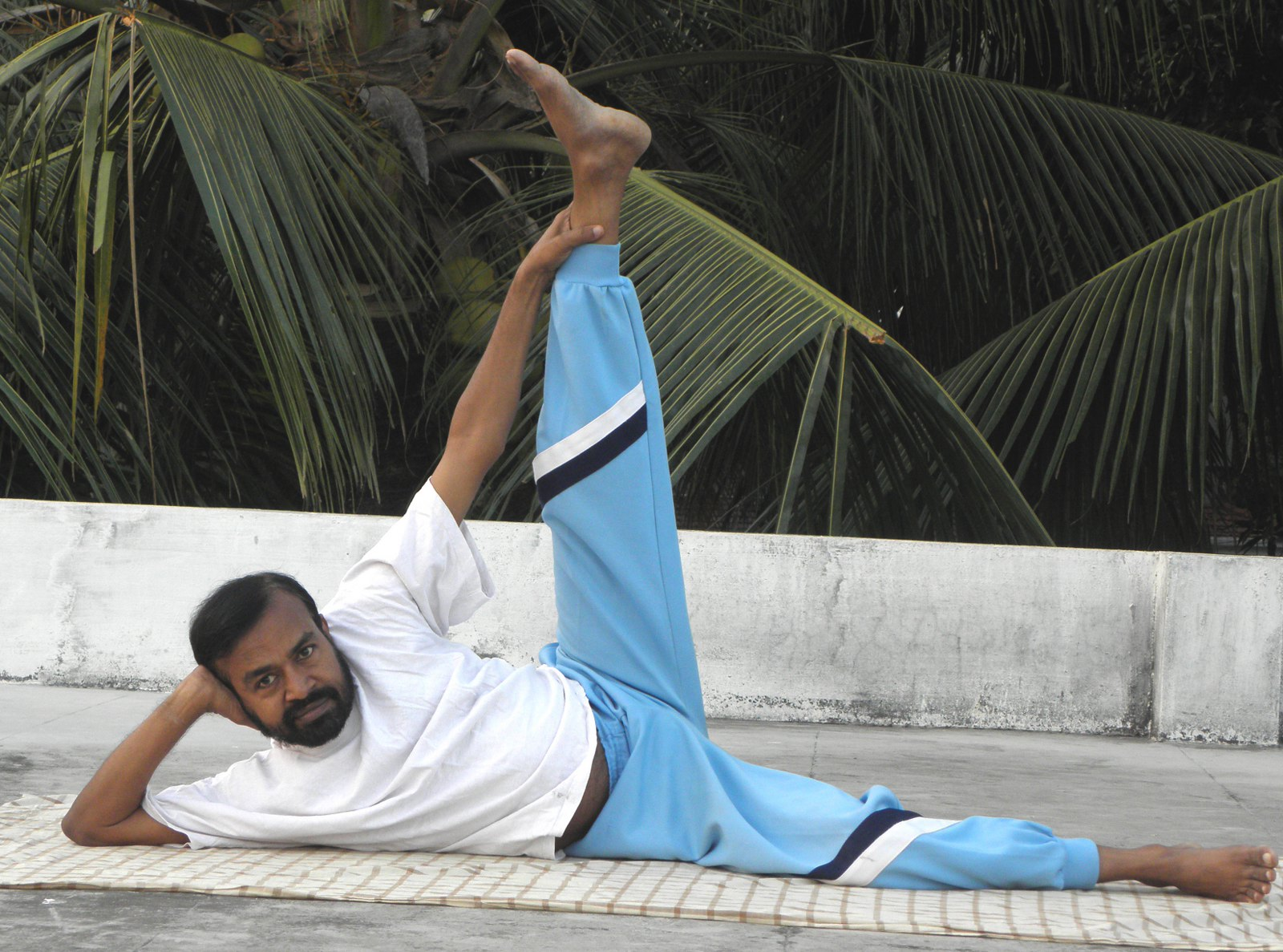 Side-reclining_leg_lift_pose